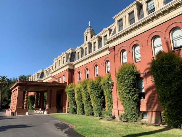 Angled view of the front of the Main Building at Sacred Heart Schools, Atherton